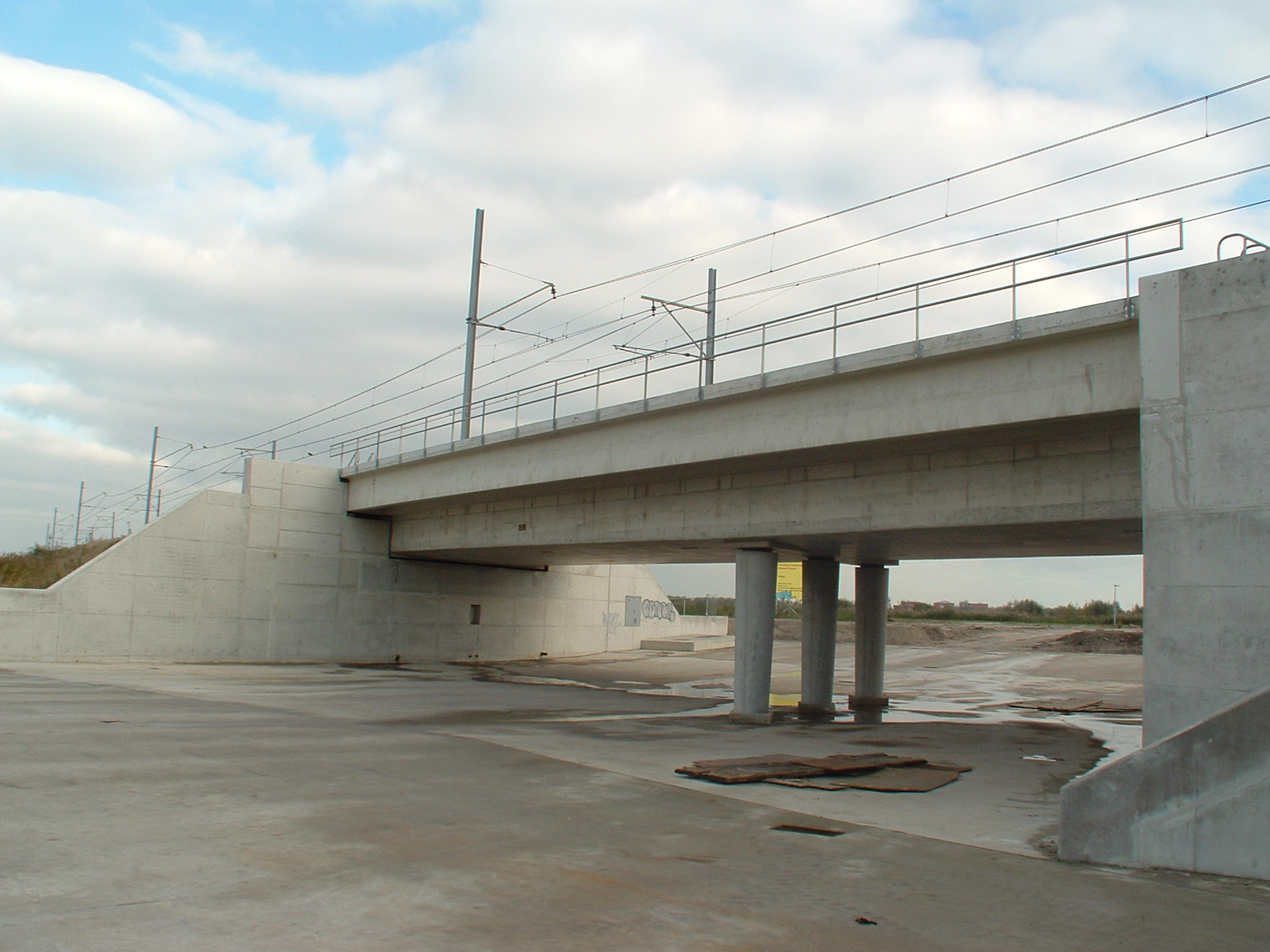 Station Almere Poort